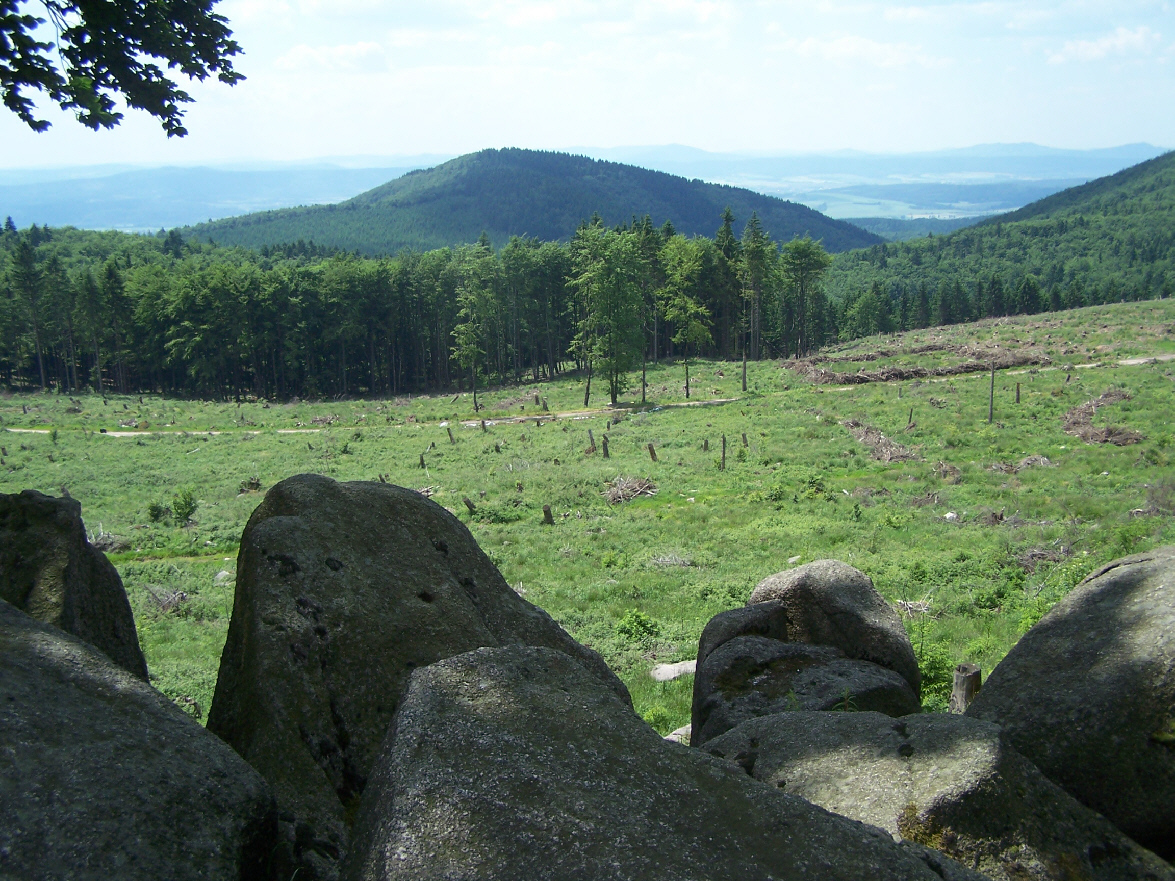 Situation two years after damages of the Storm Kyrill in Ruhla, Germany - Location: Gloeckner-viewpoint at the Rennsteig trail.